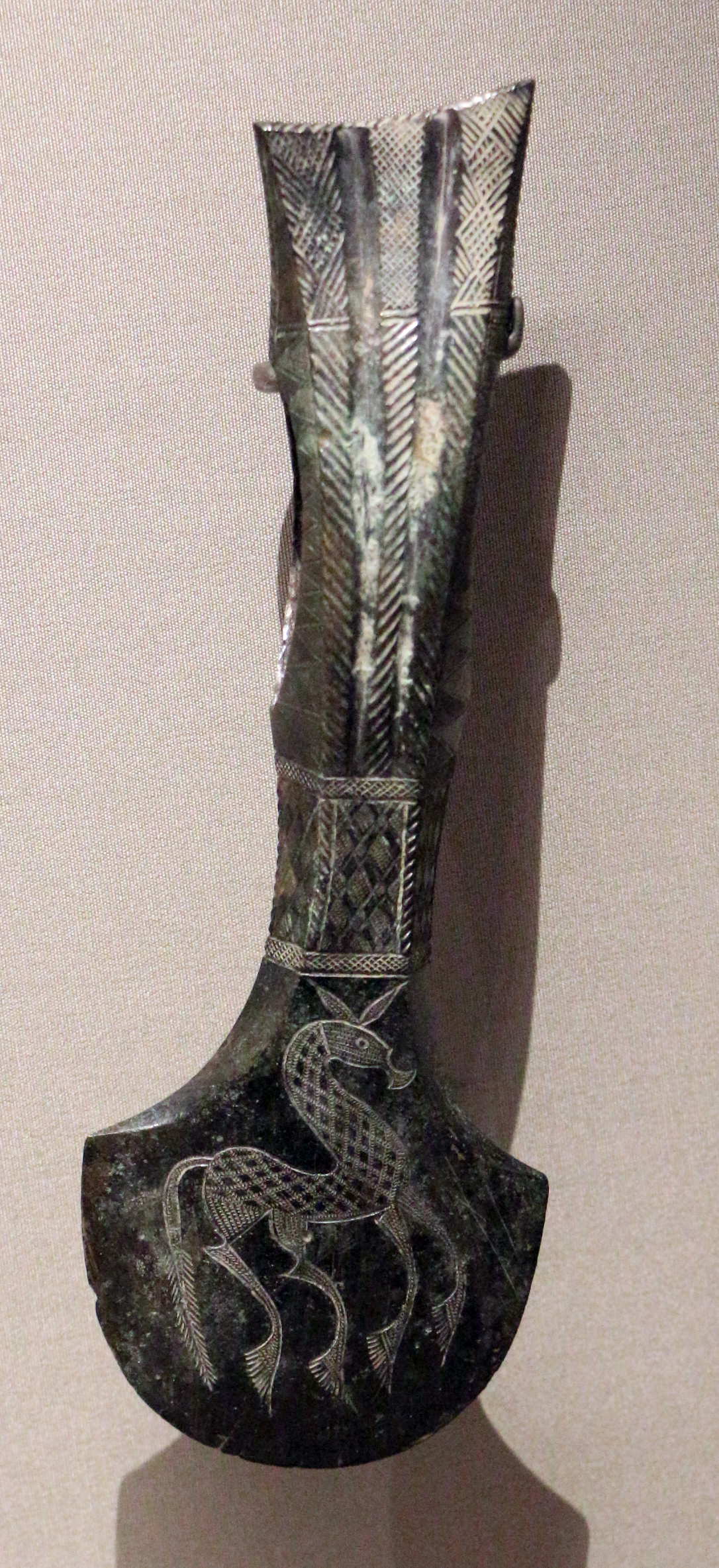 Near East antiquities in the Cleveland Museum of Art